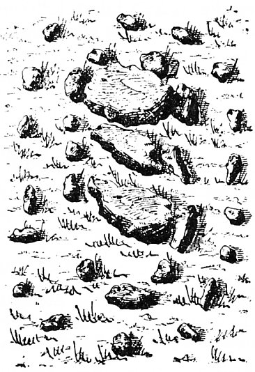 Megalithic Tomb Teutendorf (Sprockhoff-No. 367)